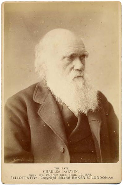 A reproduction of a photograph of Charles Darwin, circa 1875, by Elliott & Fry